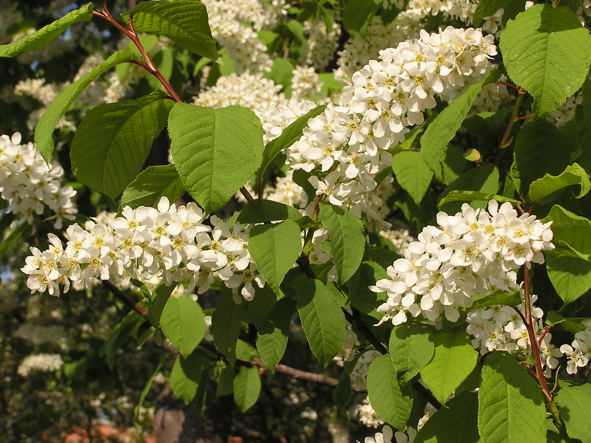 flowers of Prunus padus